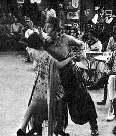 Rudolph Valentino and Beatrice Dominguez in the 1921 film the American film The Four Horsemen of the Apocalypse.